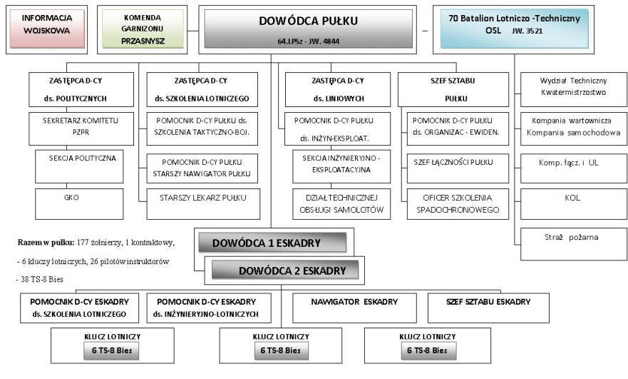 Struktura 64.LPS z 1958